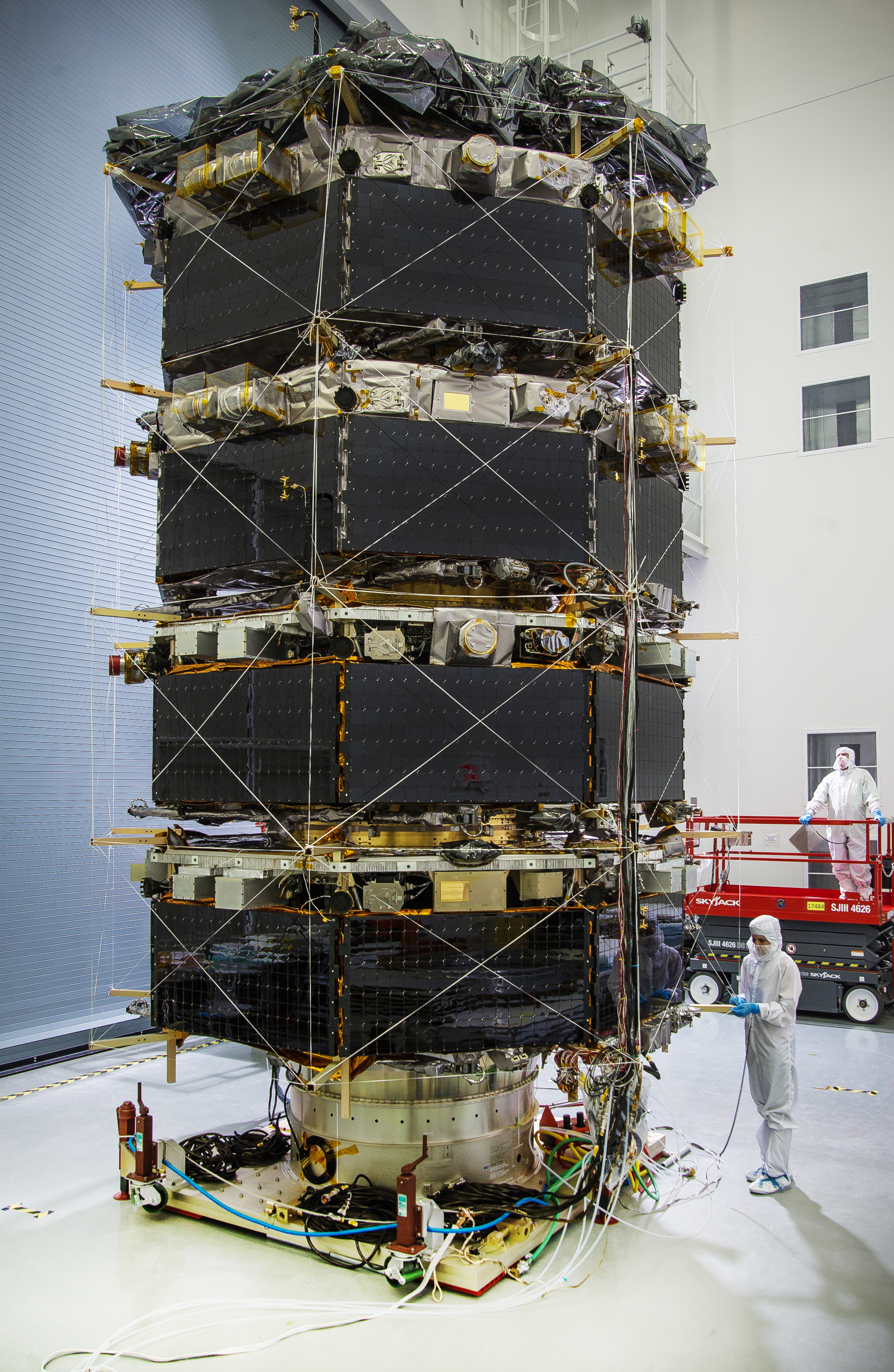 All four stacked Magnetospheric Multiscale, or MMS, spacecraft with solar arrays are ready to move to the vibration chamber at NASA's Goddard Space Flight Center in Greenbelt, Md., where they will undergo environmental tests.